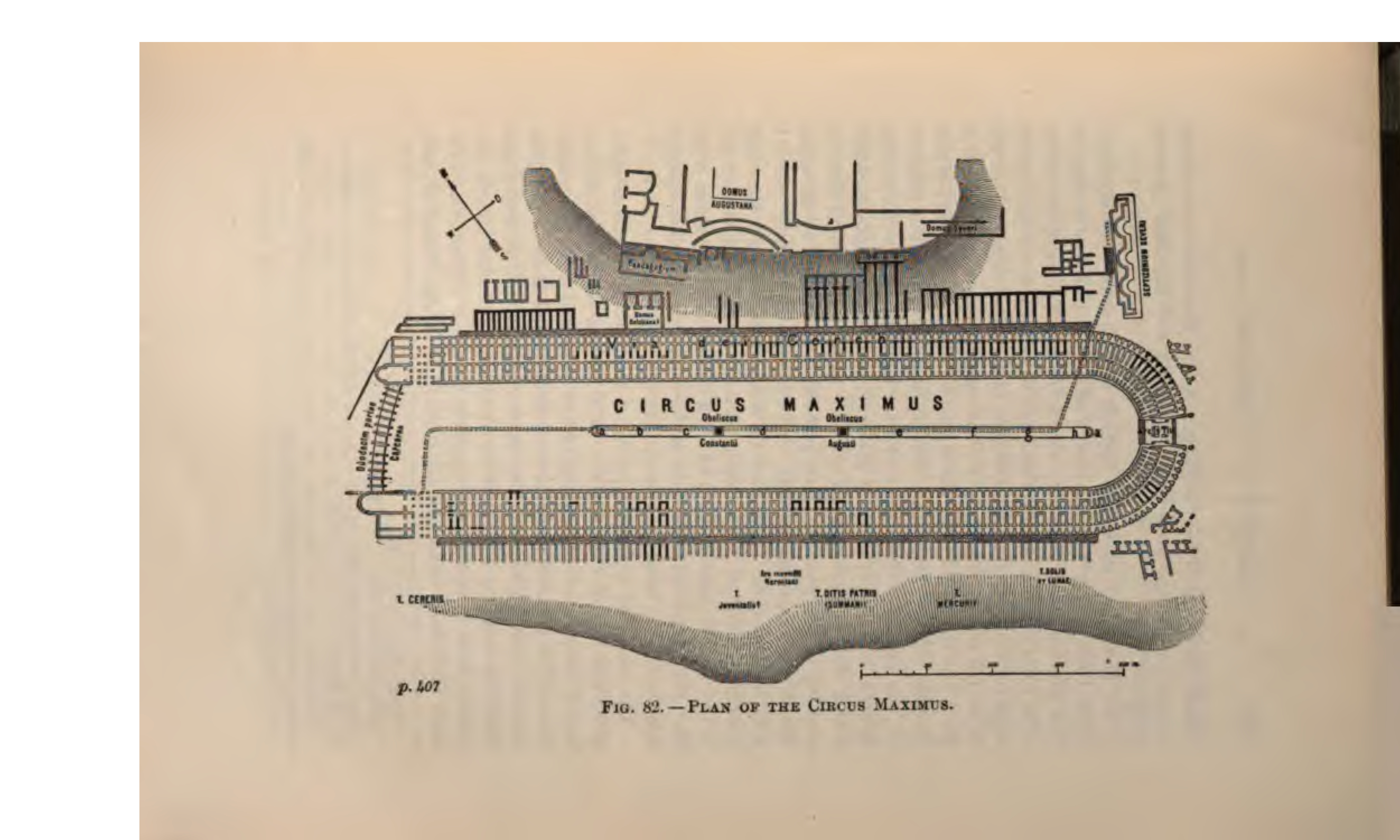 Topographical diagram of the Circus Maximus by Samuel Ball Platner